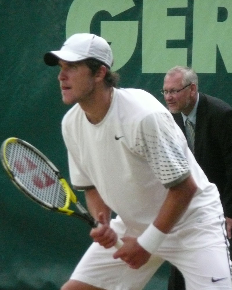 Gerry Weber Open 2008 - Court 1, Andreas Beck - Mischa Zverev